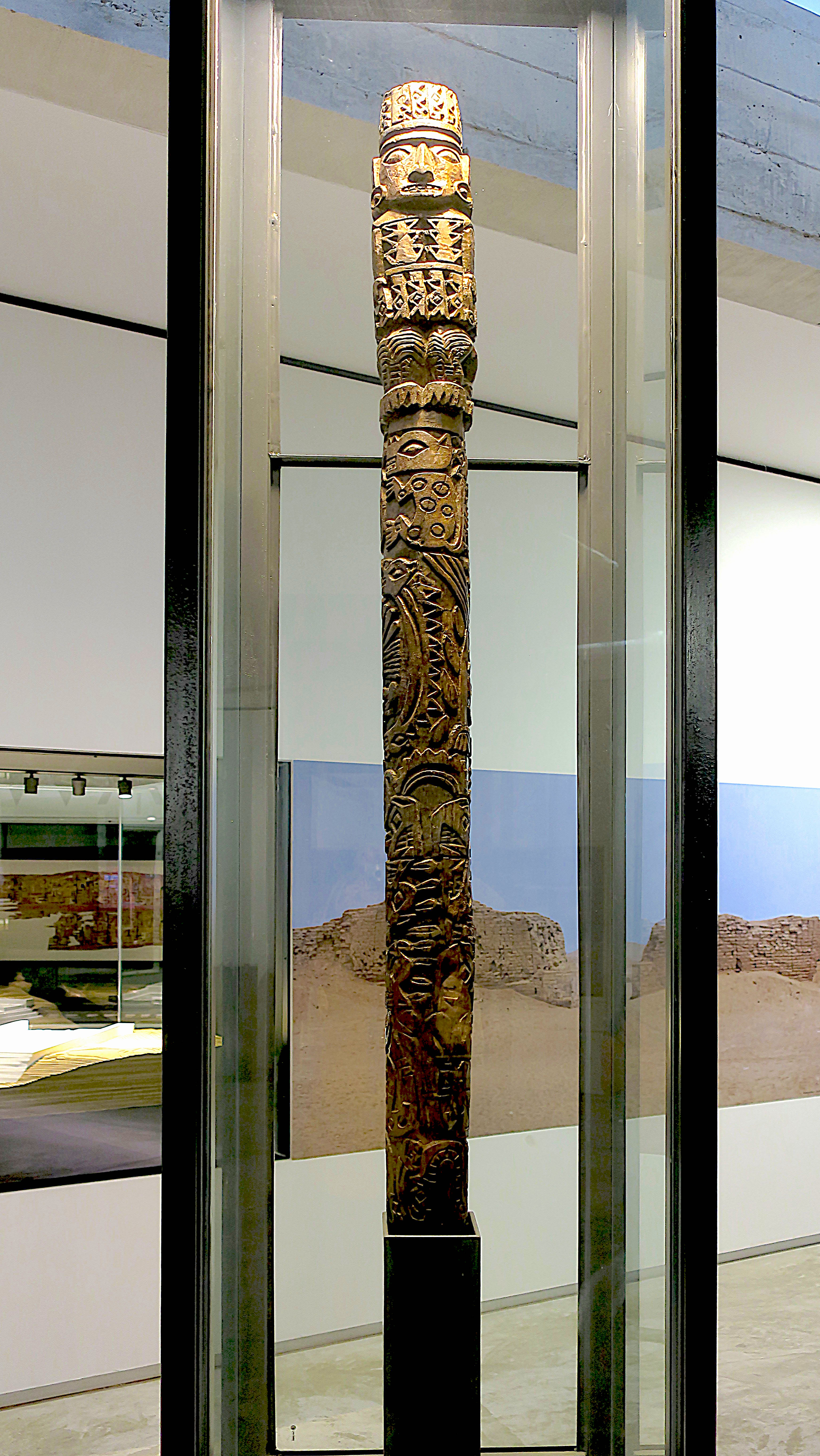 Pachacámac - Lurín River Valley, Lima, Peru